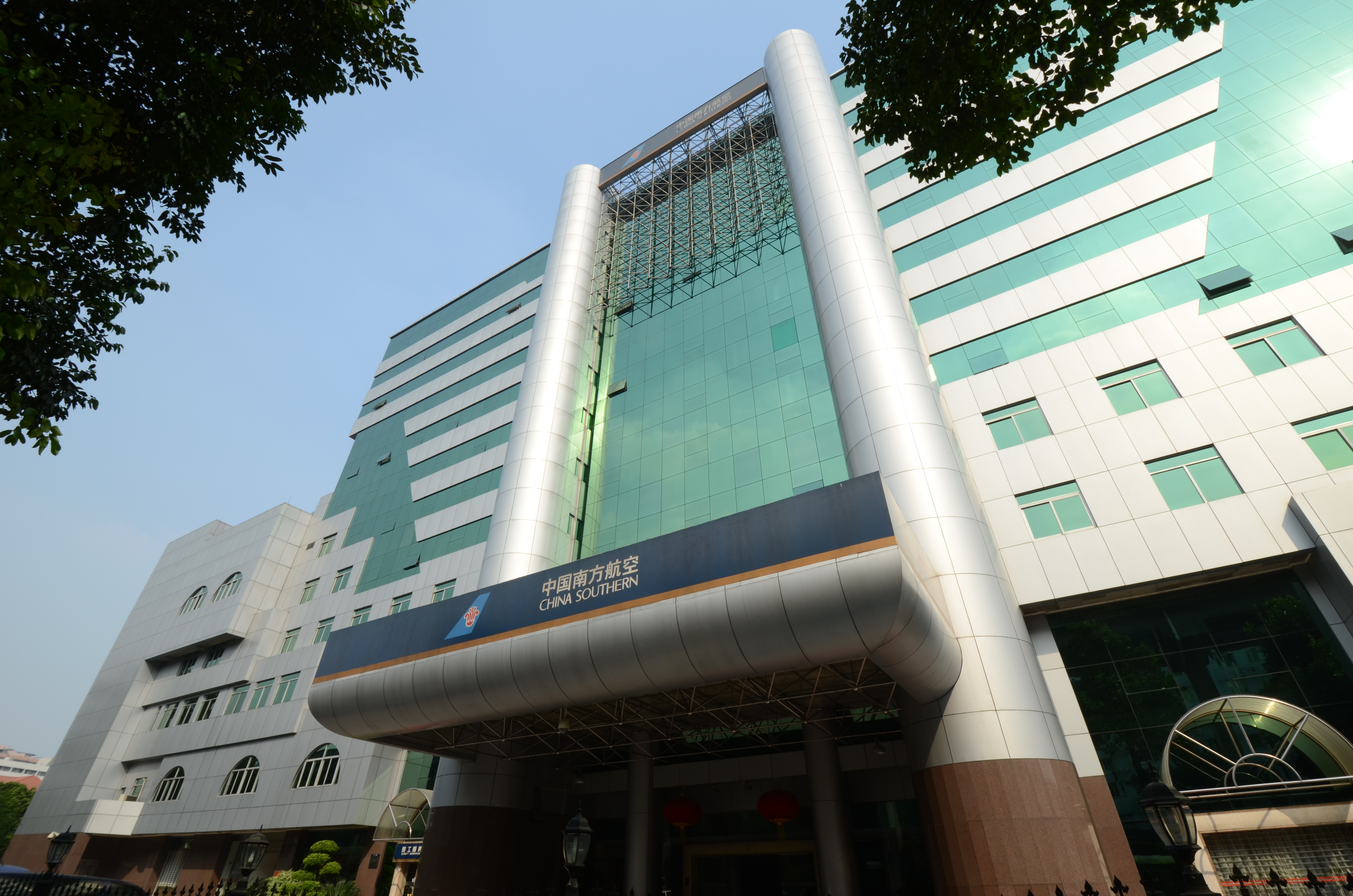 China Southern Airlines headquarters - 278 Jichang Road, Guangzhou 510405, Guangdong Province, the People's Republic of China